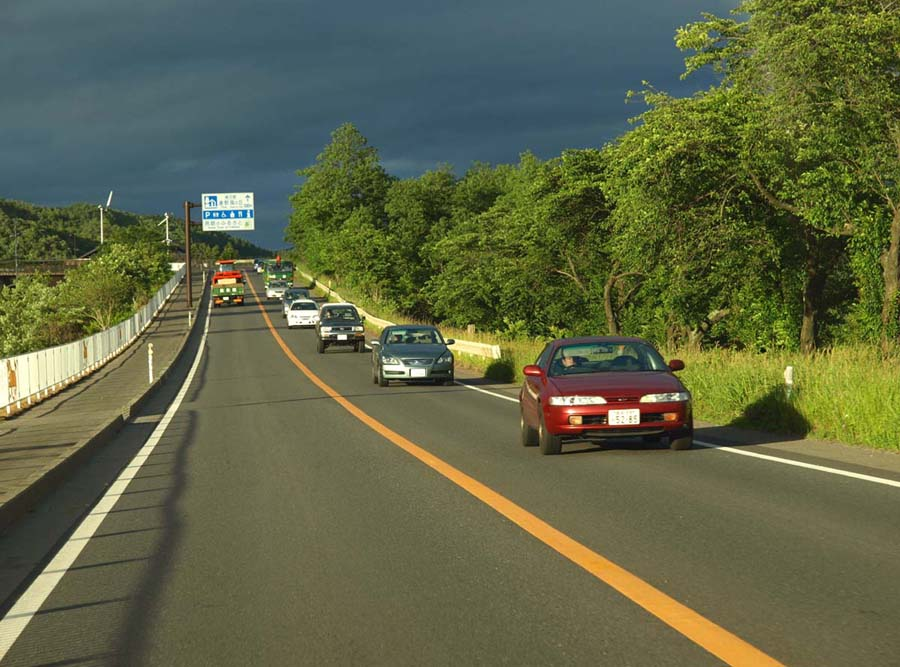 Route 283 crosses over the Kamaishi Line before passing the Kaze no Oka road station.